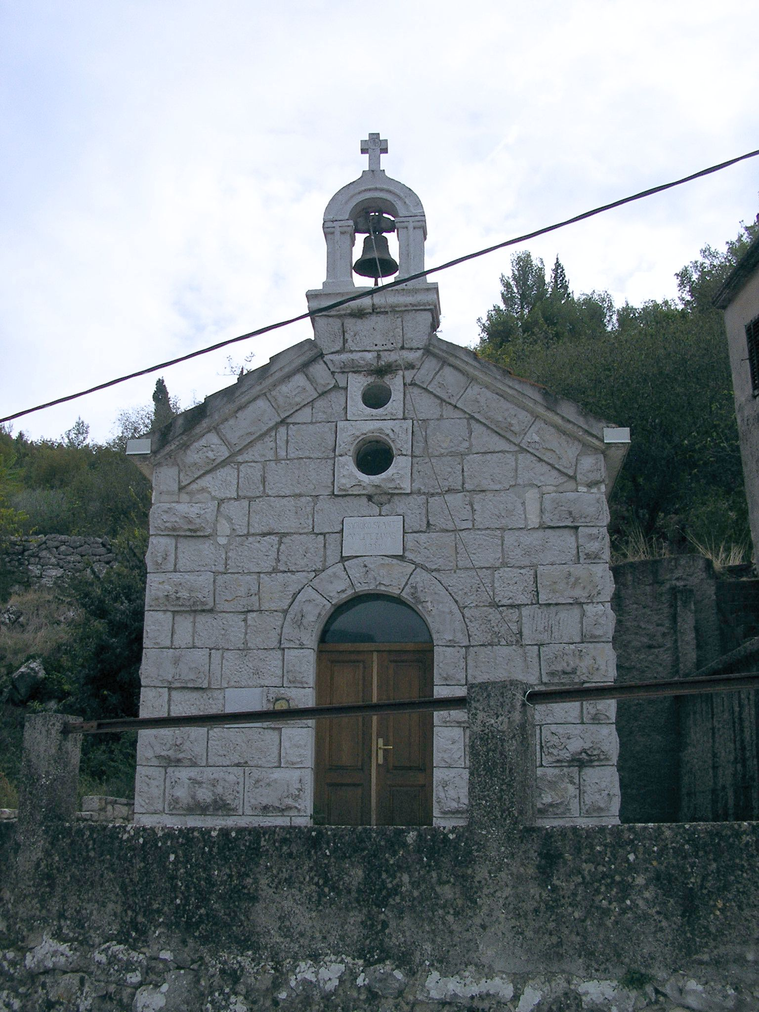 Chapel of St. Anthony of Padua and St. Roch in Mlinište